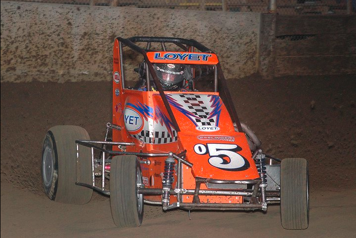 Brad Loyet racing his midget at Belle-Clair Speedway